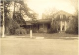 Home of Edwin Hurlbut in Oconomoc, WI.